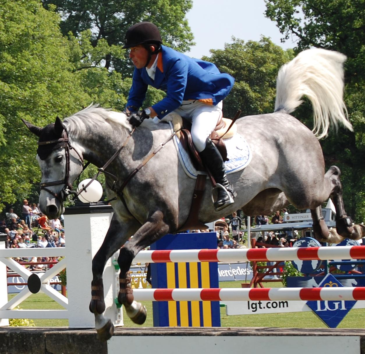 Gerco Schröder with Eurocommerce California, "Championat von Hamburg", CSI 5* Hamburg 2011